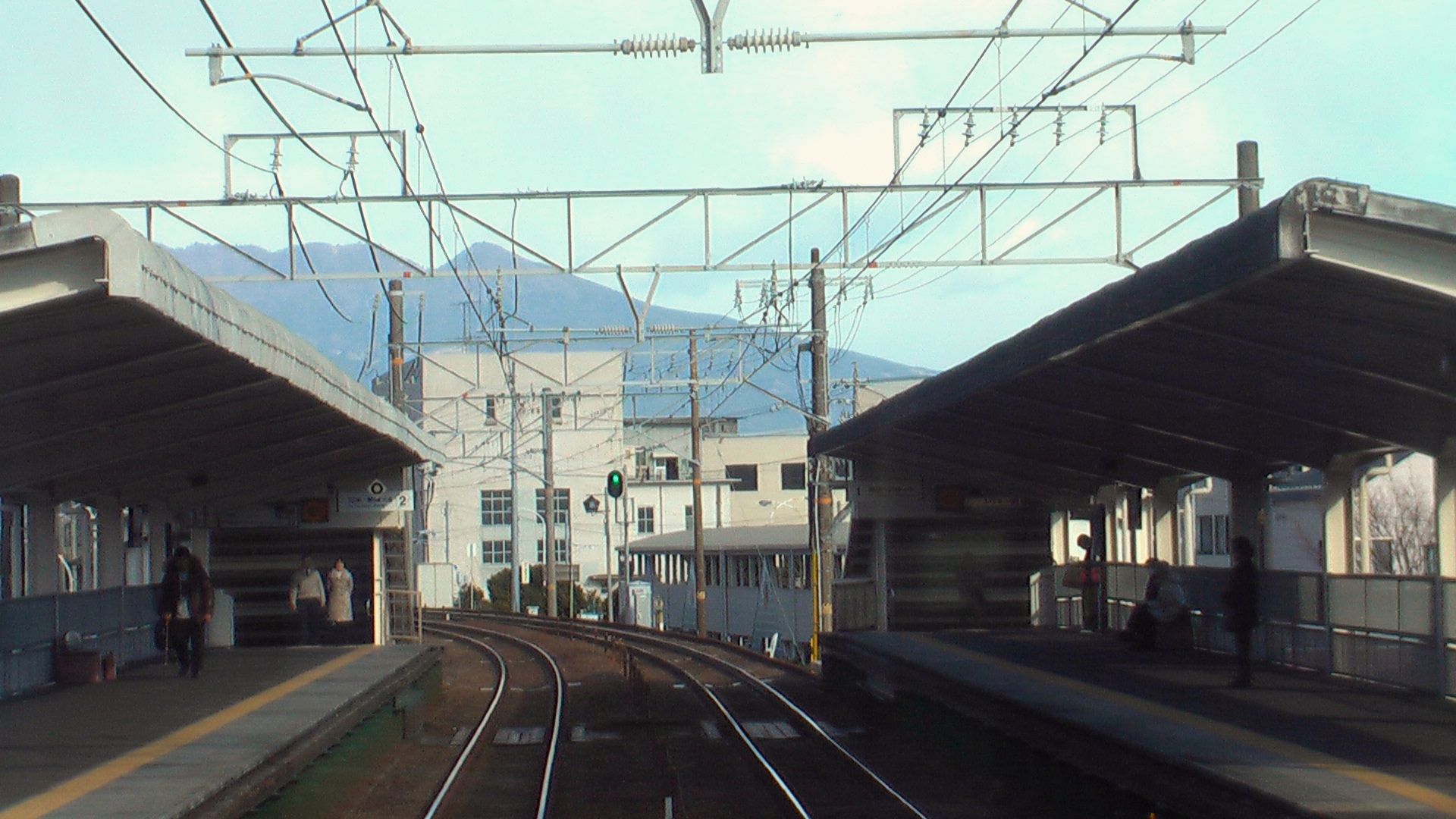 Shin-Kambara Station platform (新蒲原駅のホーム)